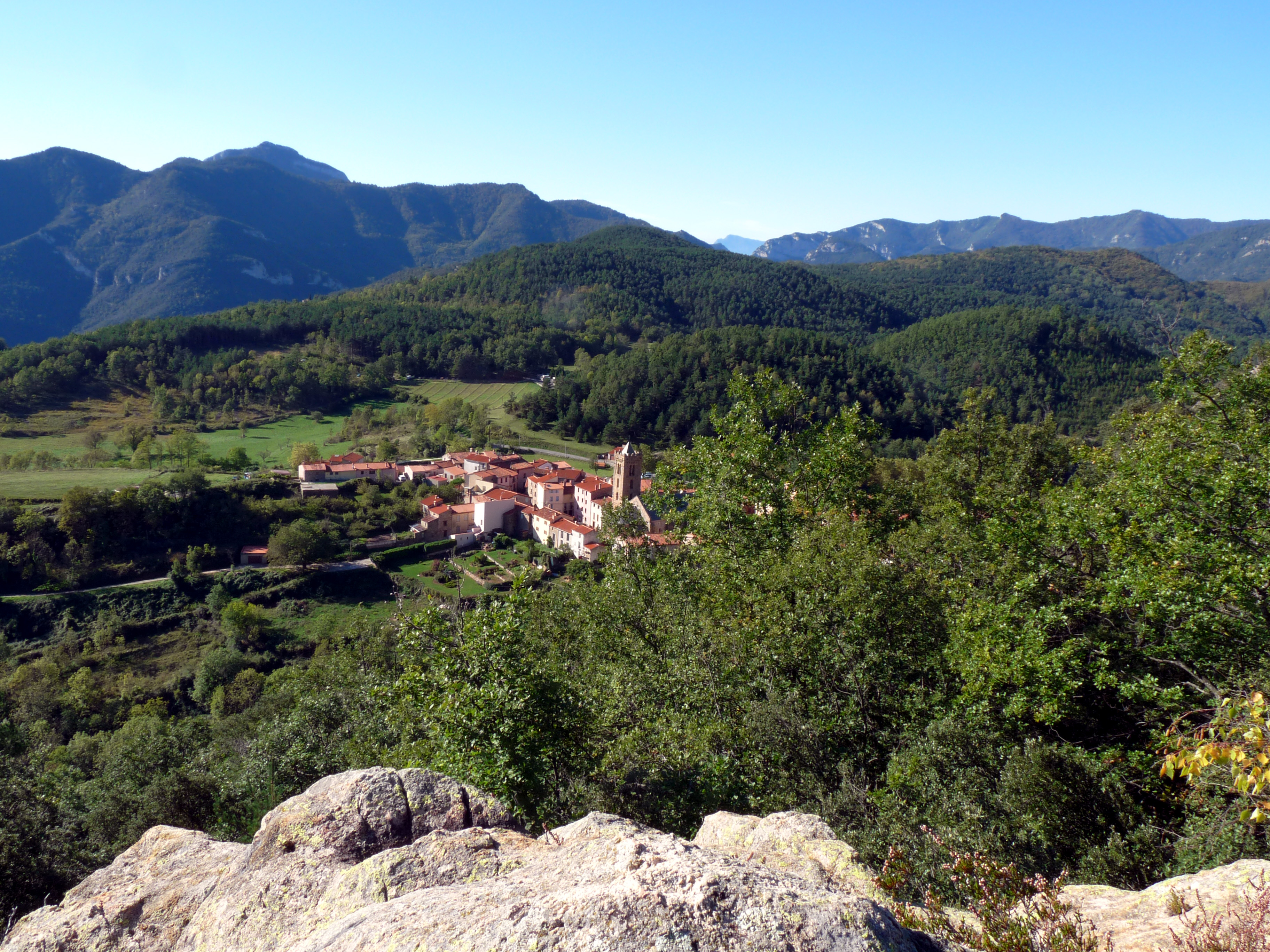 Coustouges village